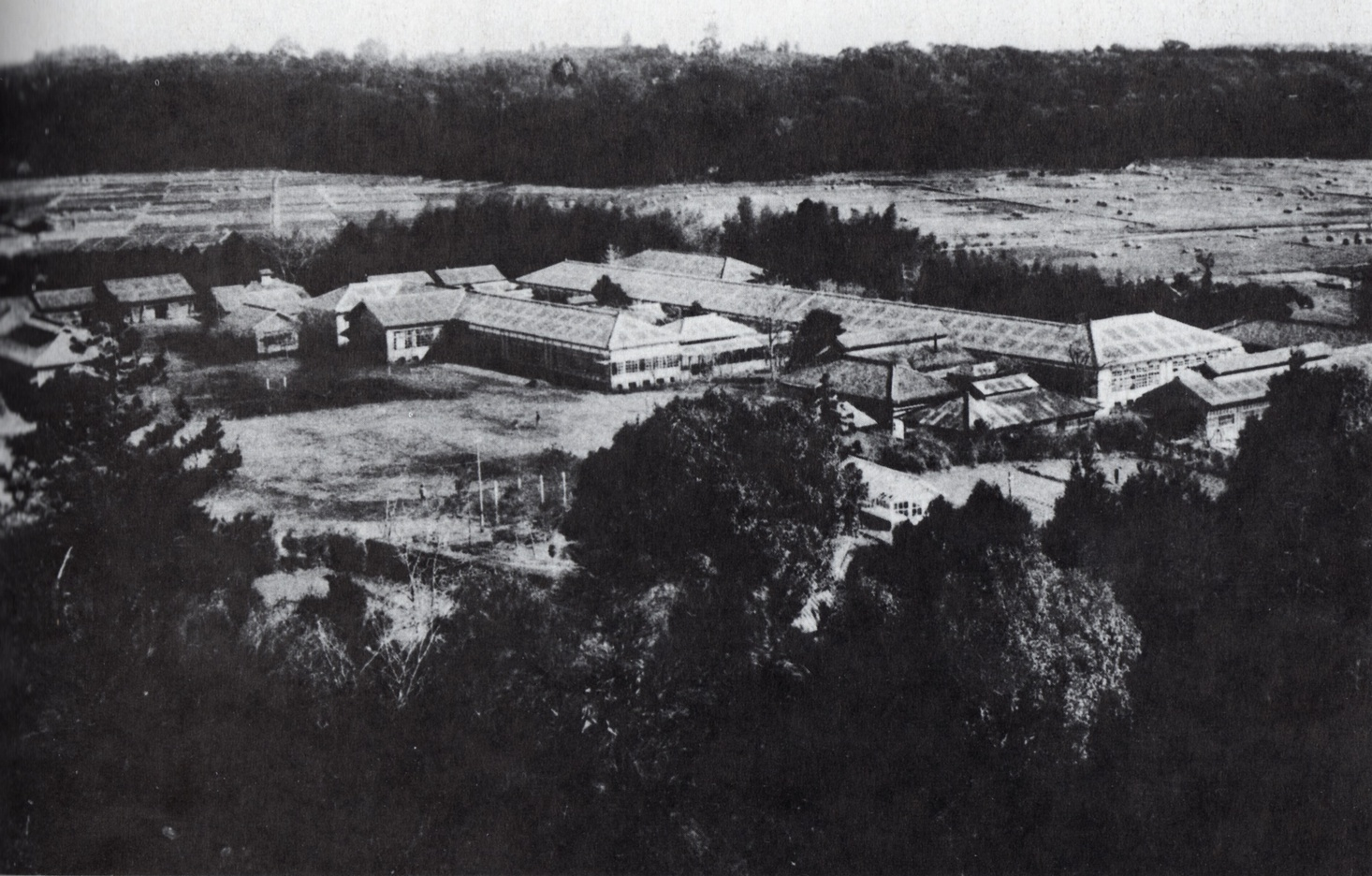 Kanoya Agricultural College, Present Kanoya Agricultural High School (Kanoya City, Kagoshima Prefecture, Japan)